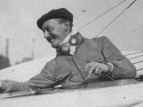 Alfred Leblanc in airplane, being congratulated by Henri Deutsch de la Muerthe, at Nancy after "Circuit de l'Est d'Aviation" in France. Heavily cropped from original, to single out LeBlanc.